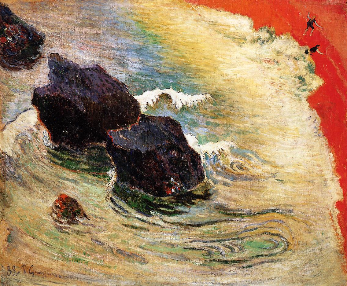 Painted from atop the east embarkment of the Plage de Porguerrec, Le Pouldu, Brittany, France.